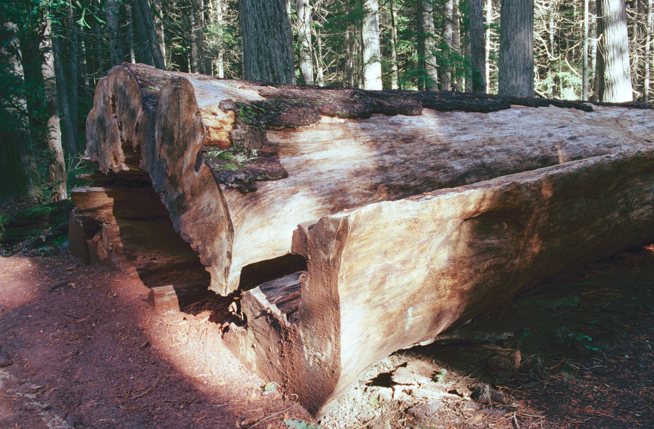 White pine tree. At least 600 years old, died in 1998.